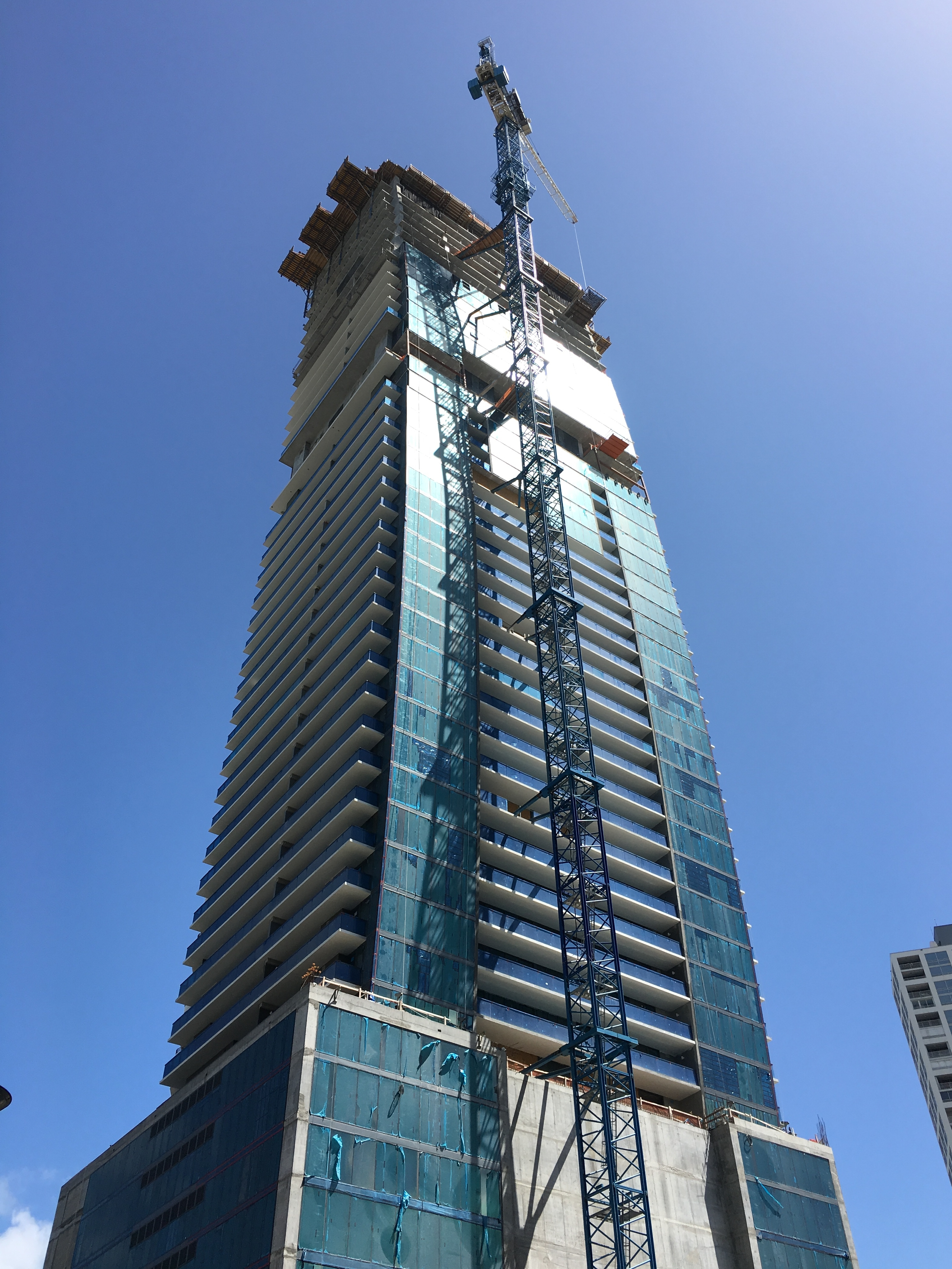 Echo Brickell under construction in September 2016.